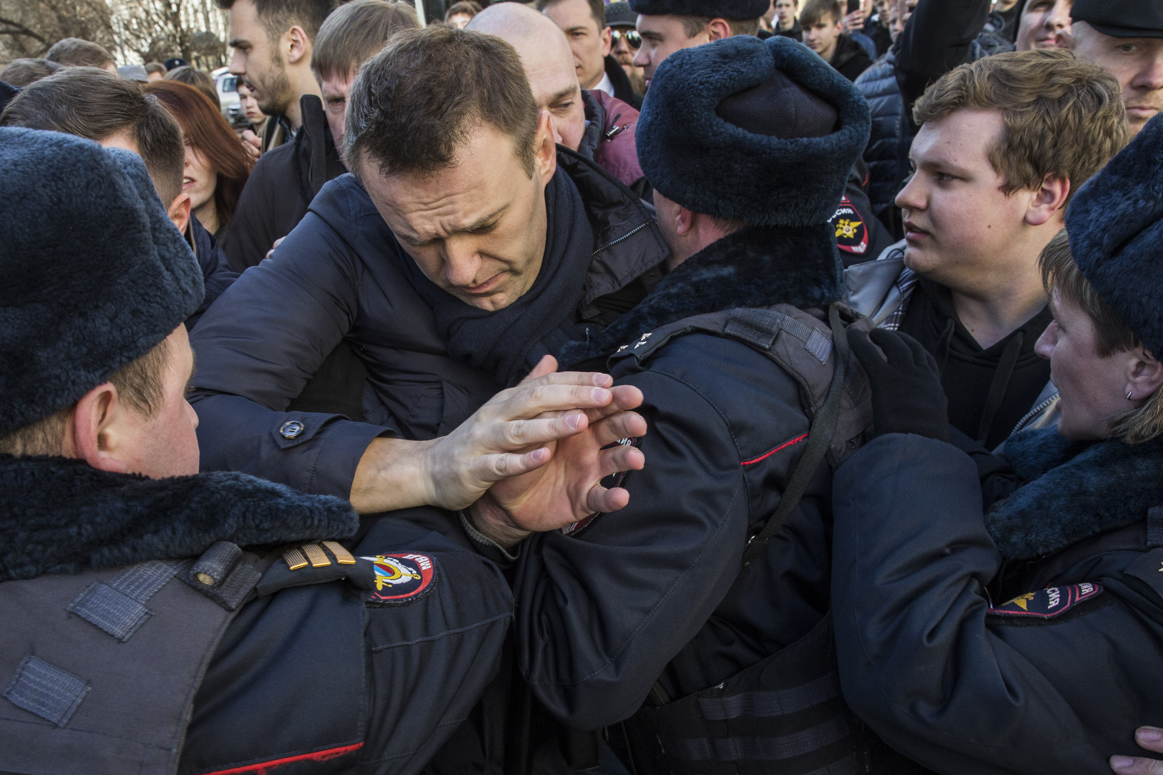 The Russian opposition leader Alexei Navalny is being detained on Tverskaya street in Moscow